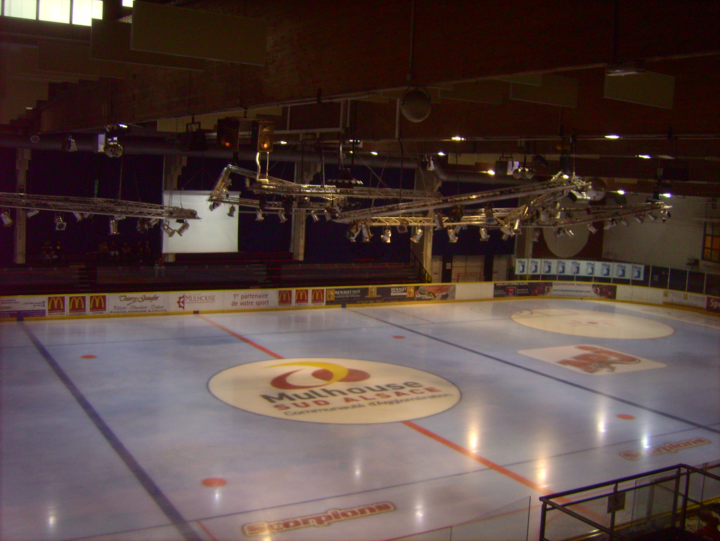 Patinoire de l'Illberg, Mulhouse, France